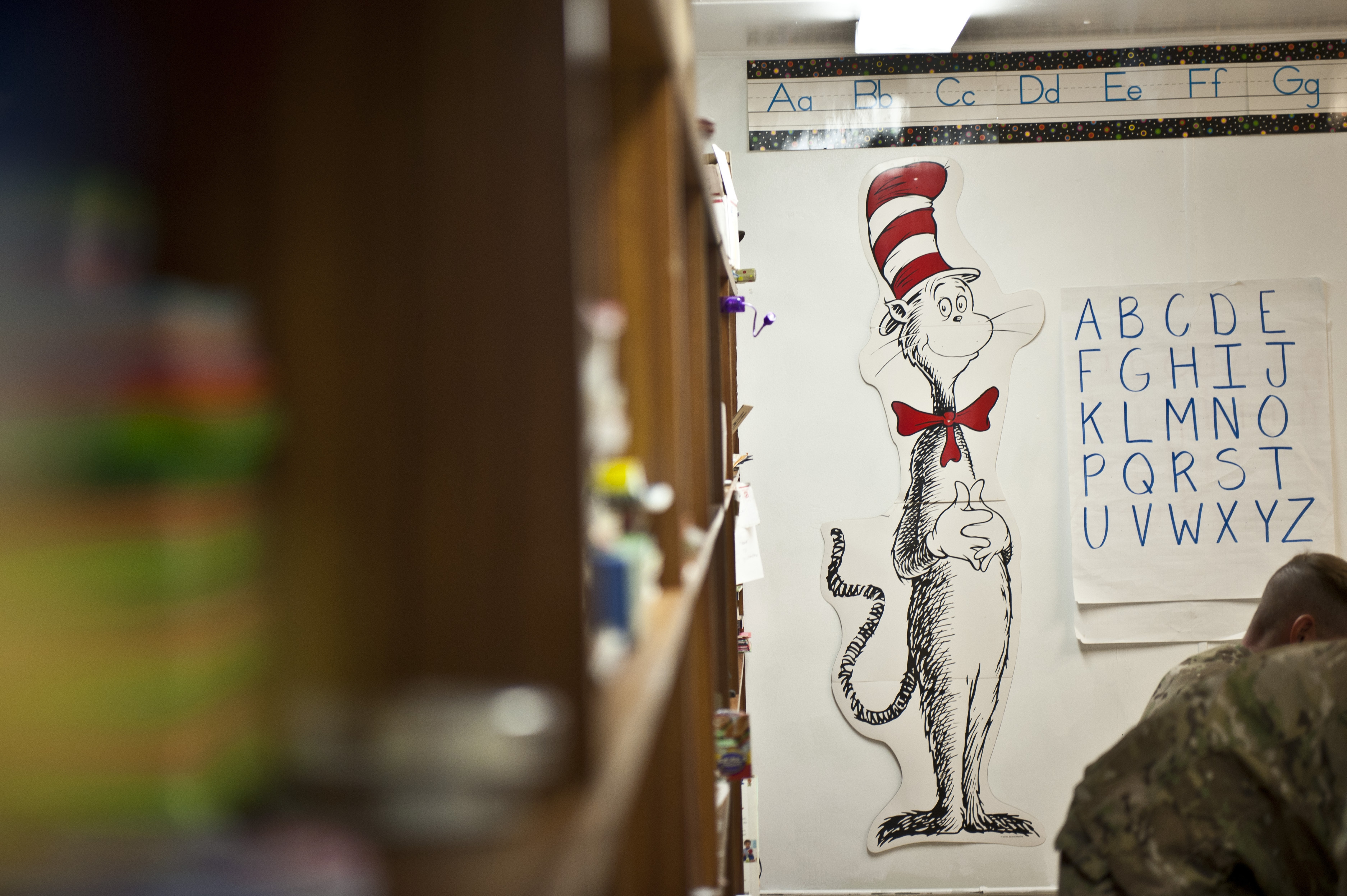 A familiar feline adorns the wall at the “Cat in the Hat” language arts center at Bagram Air Field, Afghanistan, Oct. 14, 2012. The program is a volunteer-run community outreach effort designed to provide local Afghan children a safe, nurturing learning environment in which they are inspired to bring positive change to Afghanistan.